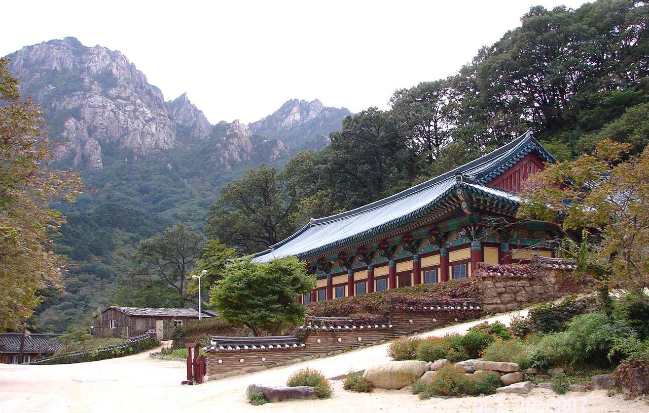 Sinheungsa in Seoraksan National Park